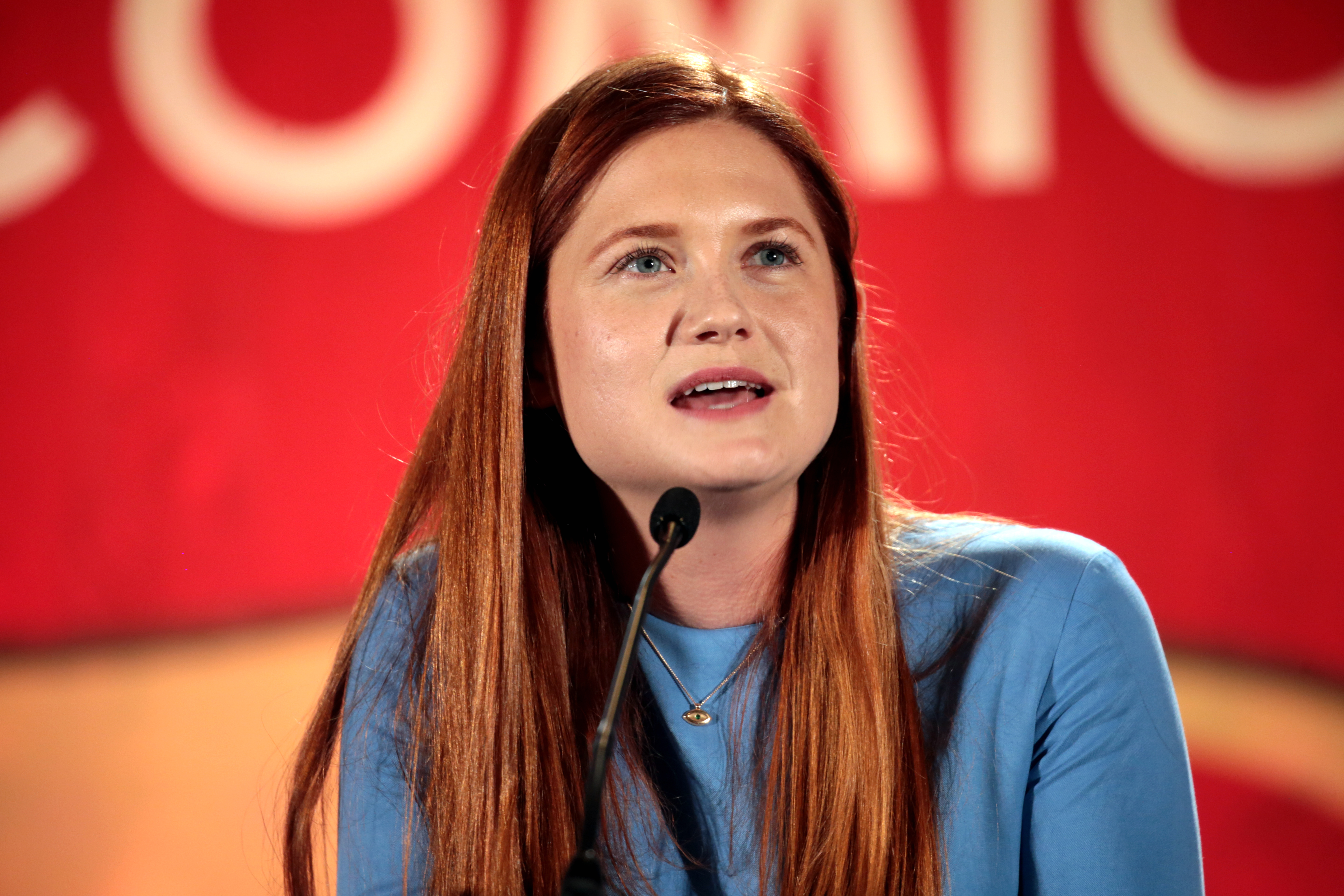 Bonnie Wright speaking at the 2017 Phoenix Comicon at the Phoenix Convention Center in Phoenix, Arizona.